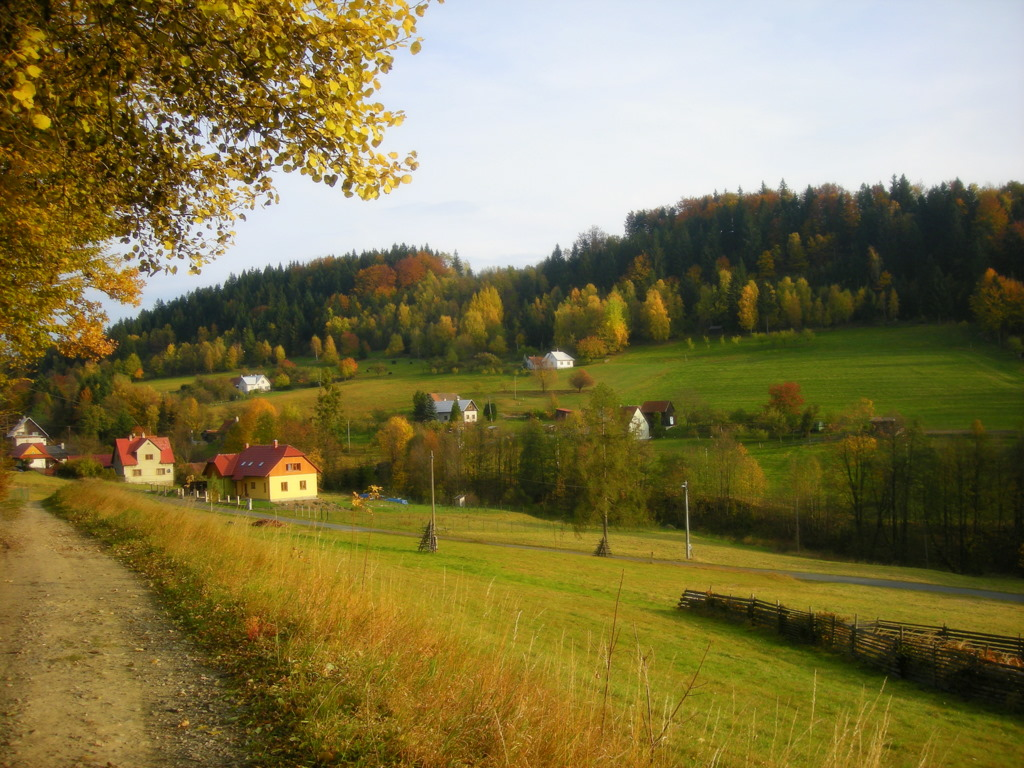 The Žáry Valley in Valašská Bystřice in autumn.